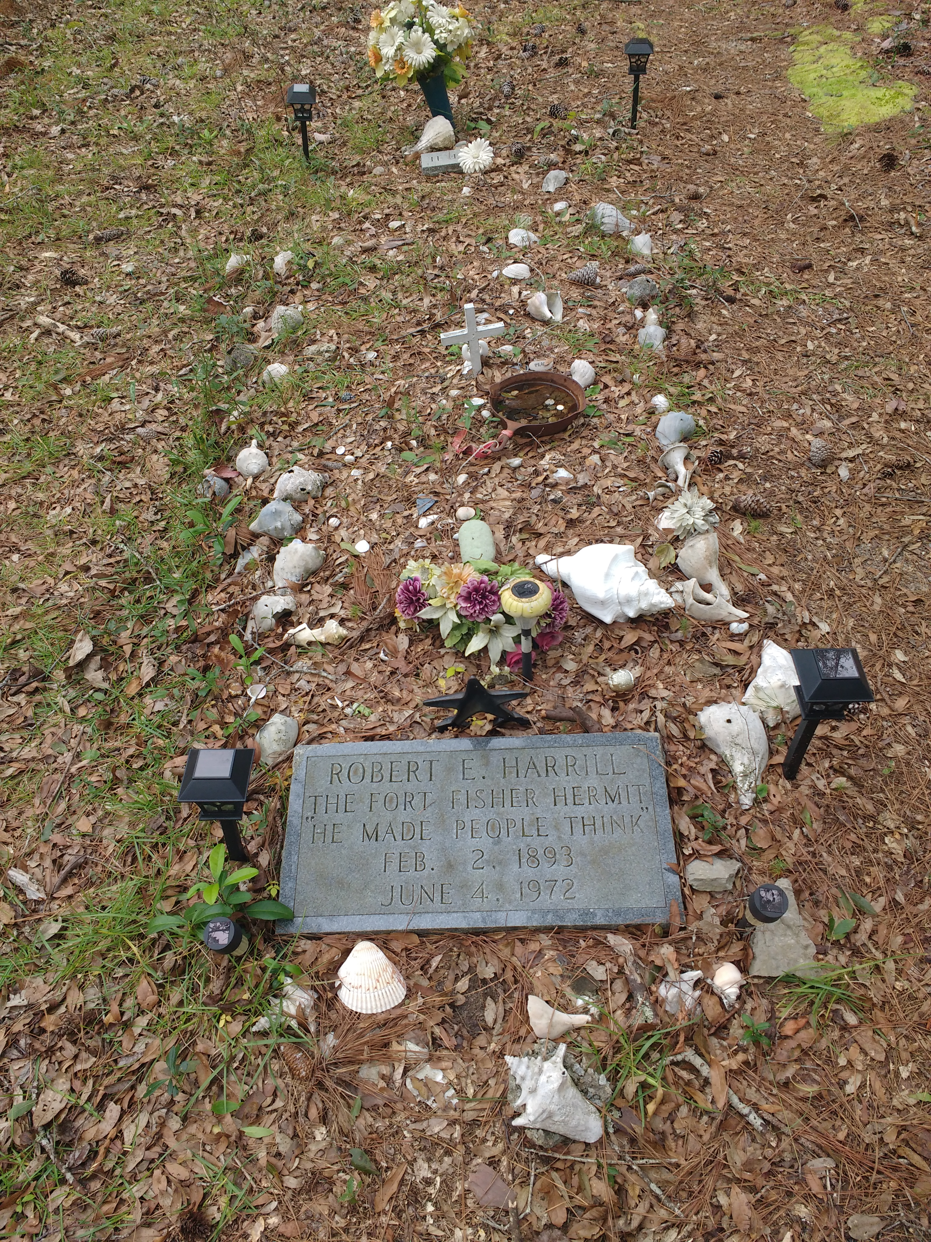 Located in the Federal Point Methodist Church Cemetery, the headstone reads, "He made people think".